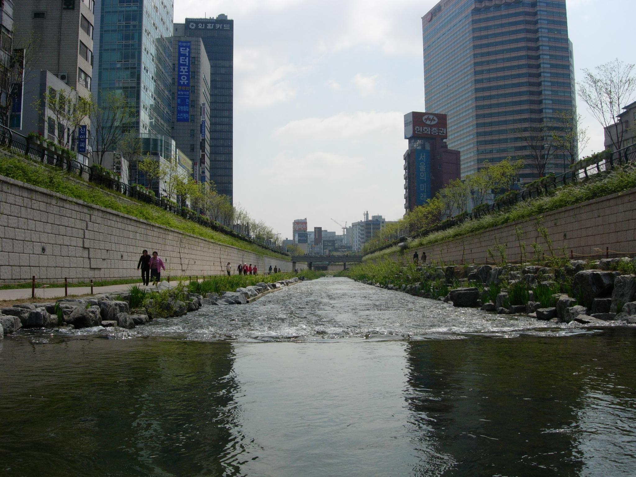 Cheonggyecheon, Seoul, South Korea